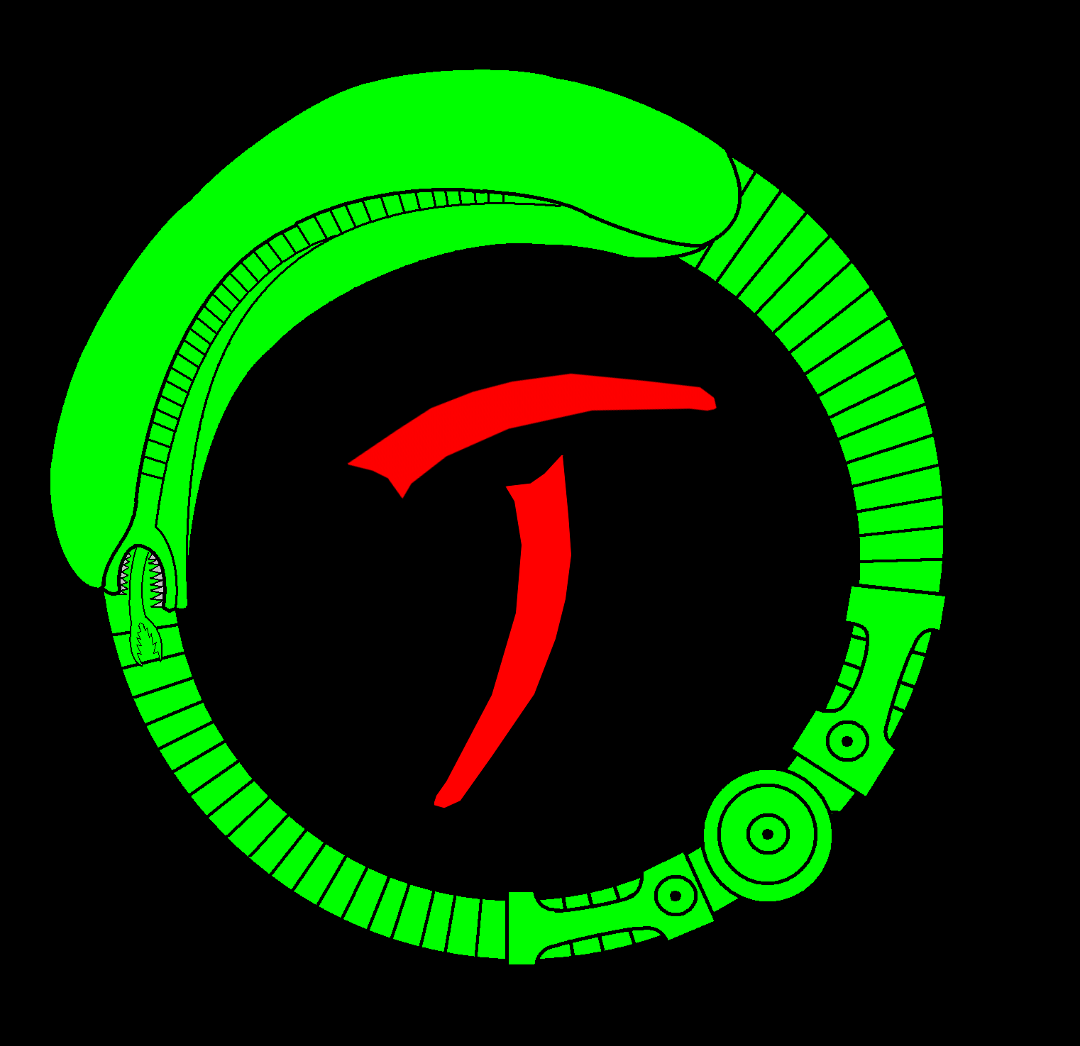 Fictive logo alien and predator